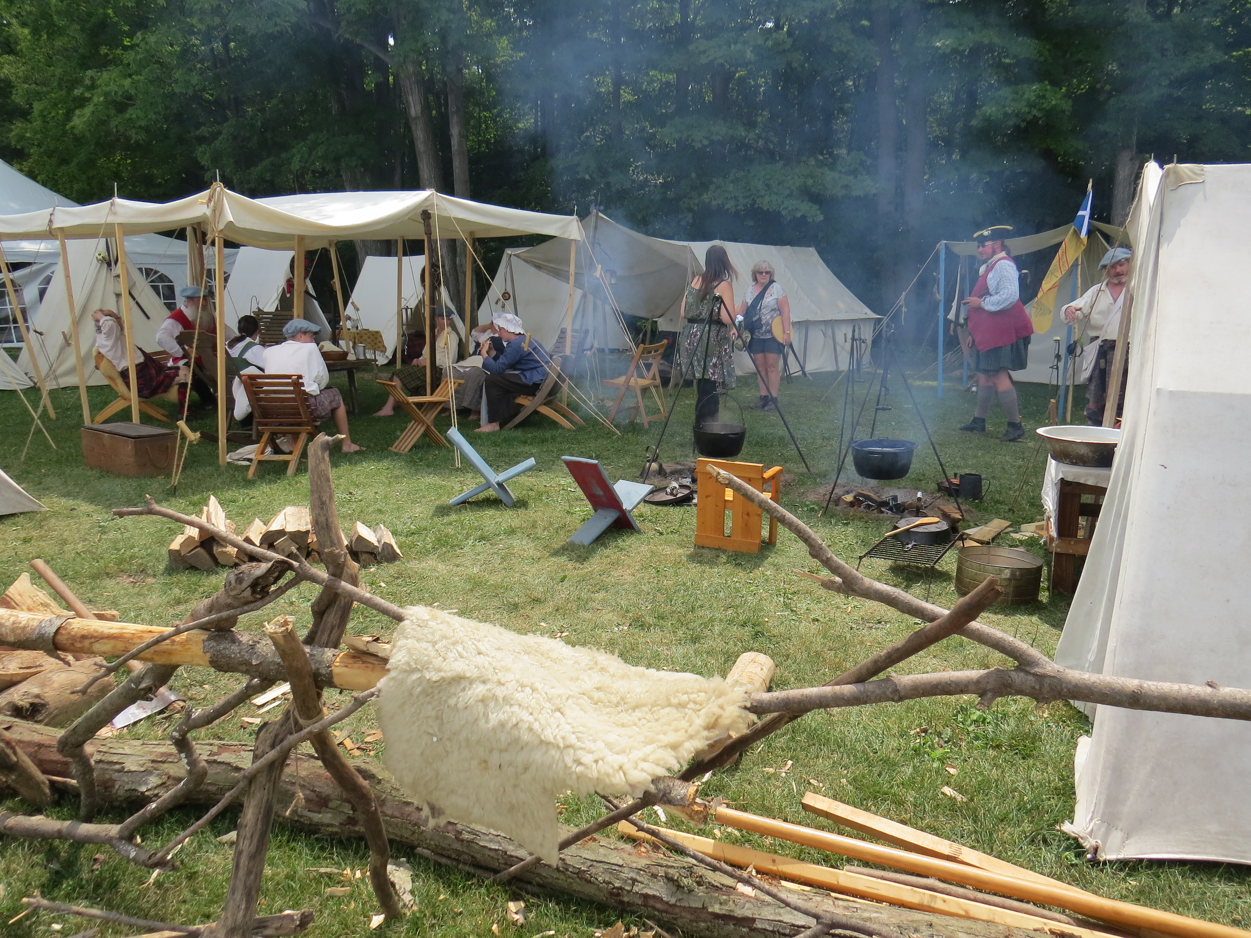 Jacobite encampment re-enactment at the Fergus Scottish Festival and Highland Games, August 2018